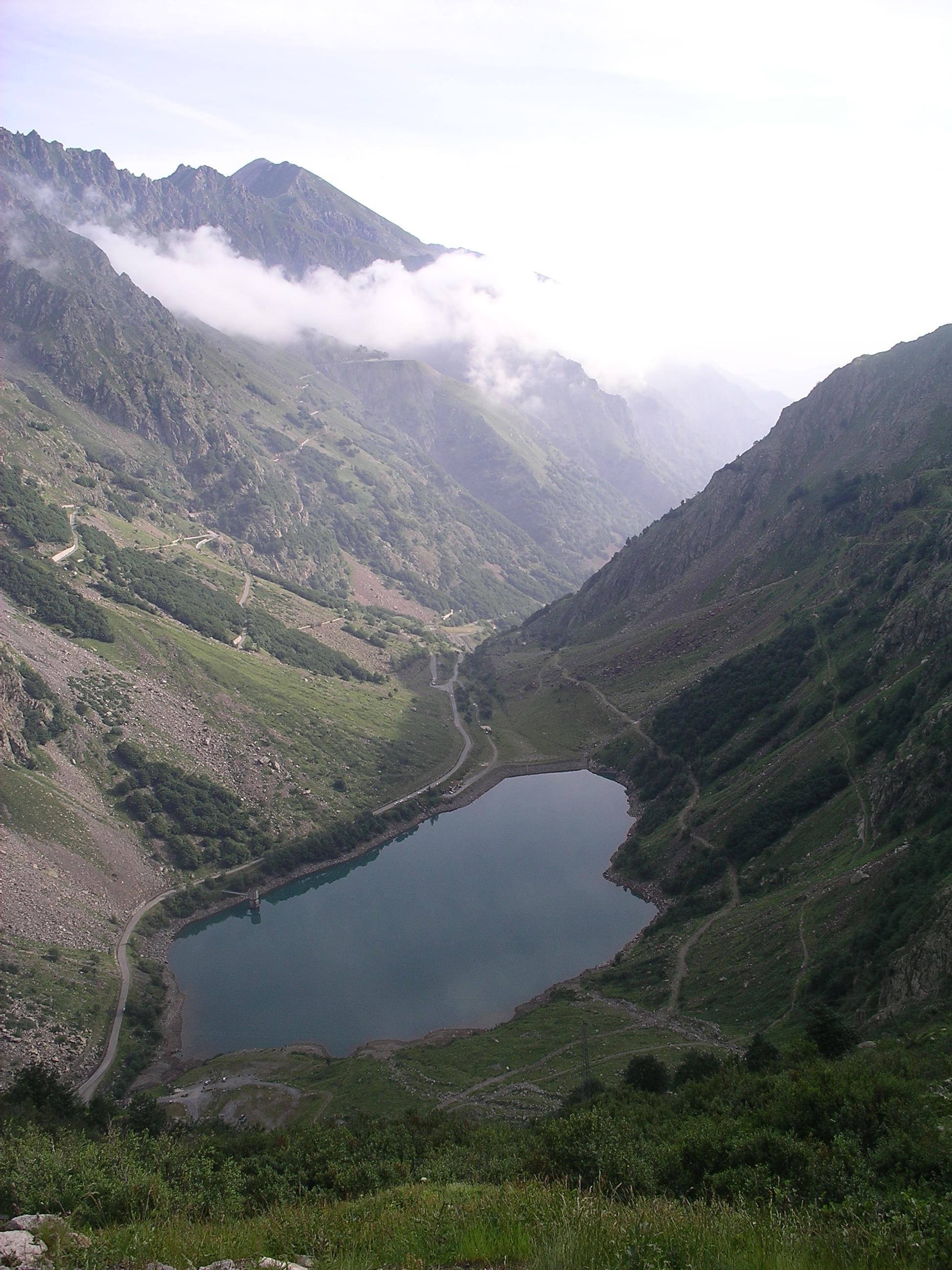 Rovina Lake - in the Valle Gesso (Cuneo-CN) and Parco naturale delle Alpi Marittime, Italian Maritime Alps, Piedmont, Italy